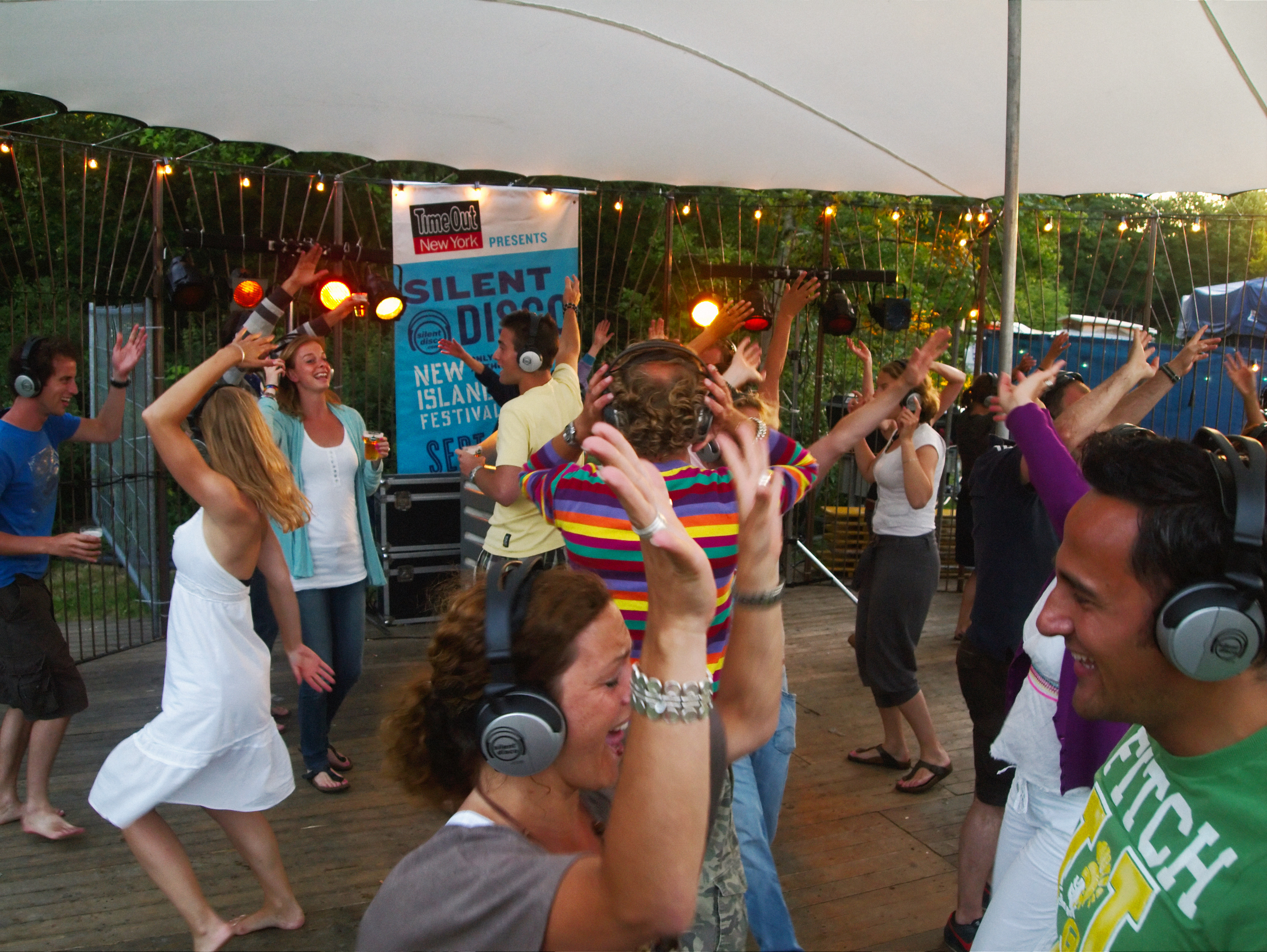 Absolutely great concept!!